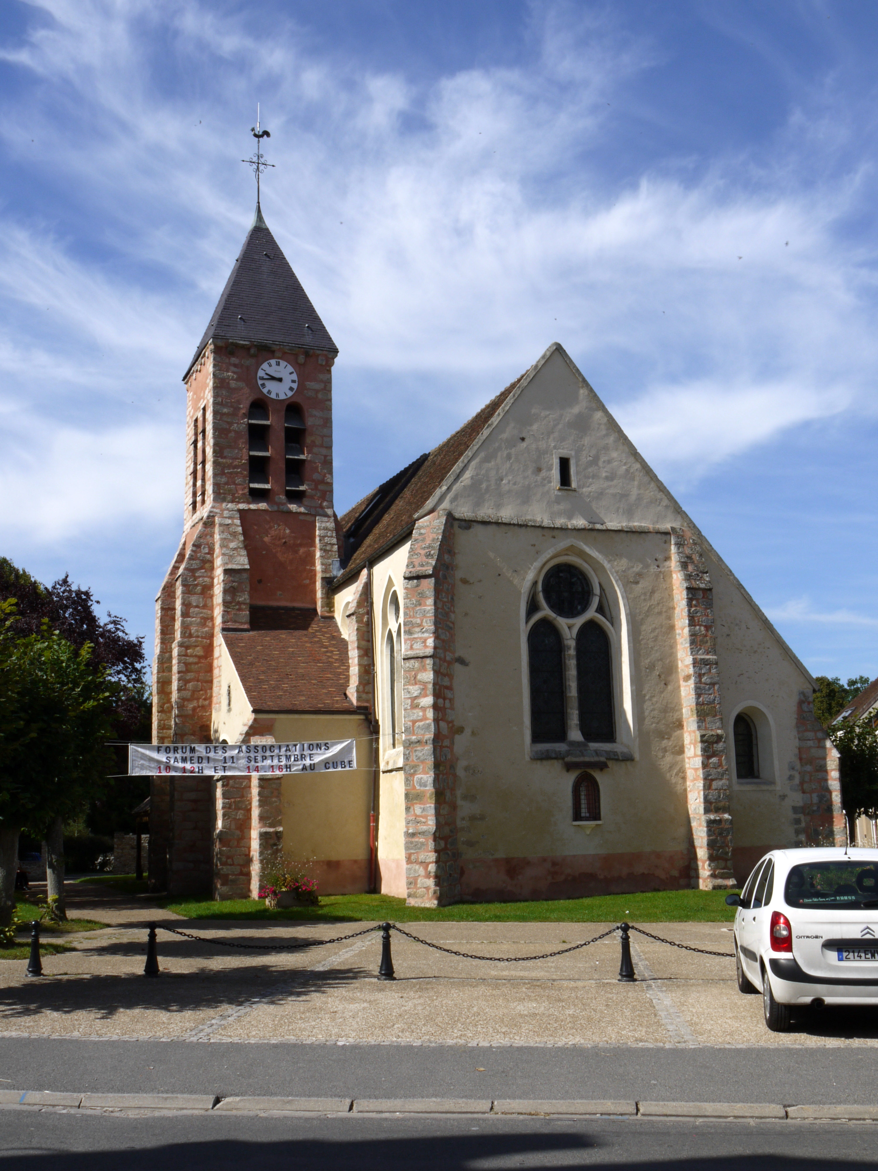 Church of la Houssaye en Brie, Seine et Marne, Ile de France